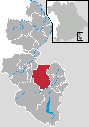 Locator maps of municipalities in Bavaria - District Berchtesgadener Land